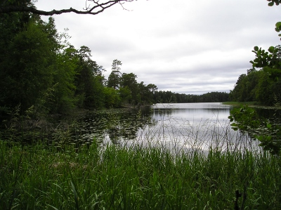 Pungaviken(bay) on Hissö(island) in Helgasjön(lake) in the provins of Småland in Sweden.